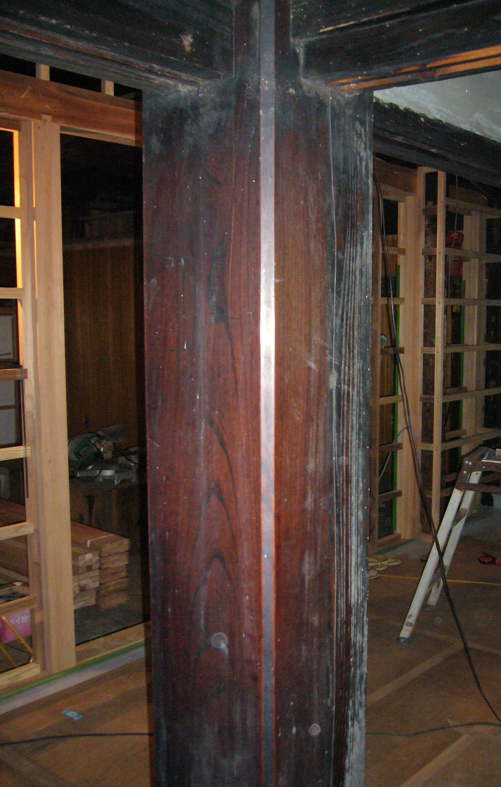 Central pillar of a Japanese house,daikoku-bashira,katori-city,japan